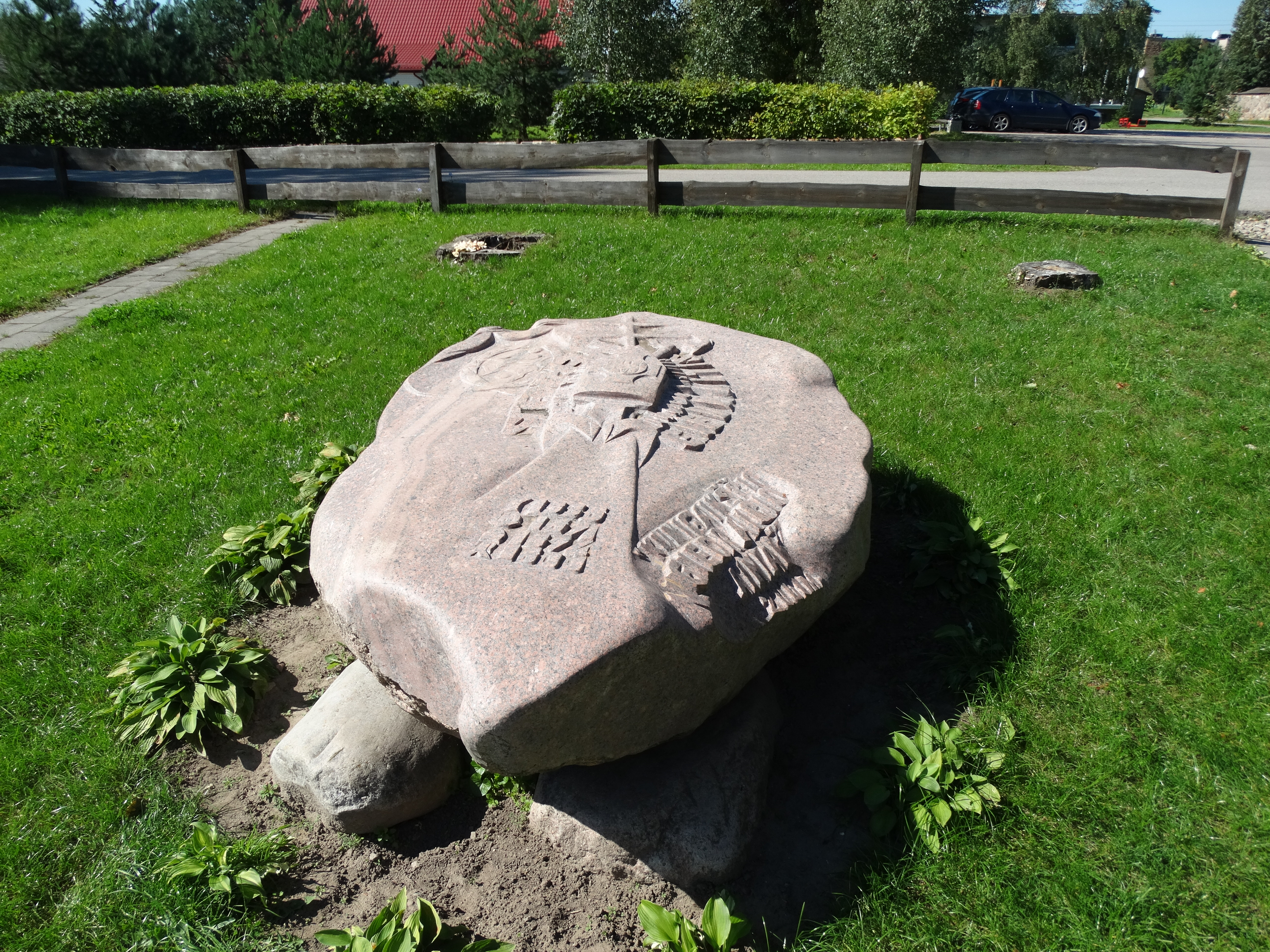 Memory stone to bishop Melchior Giedroyć, Karvys, Vilnius District, Lithuania